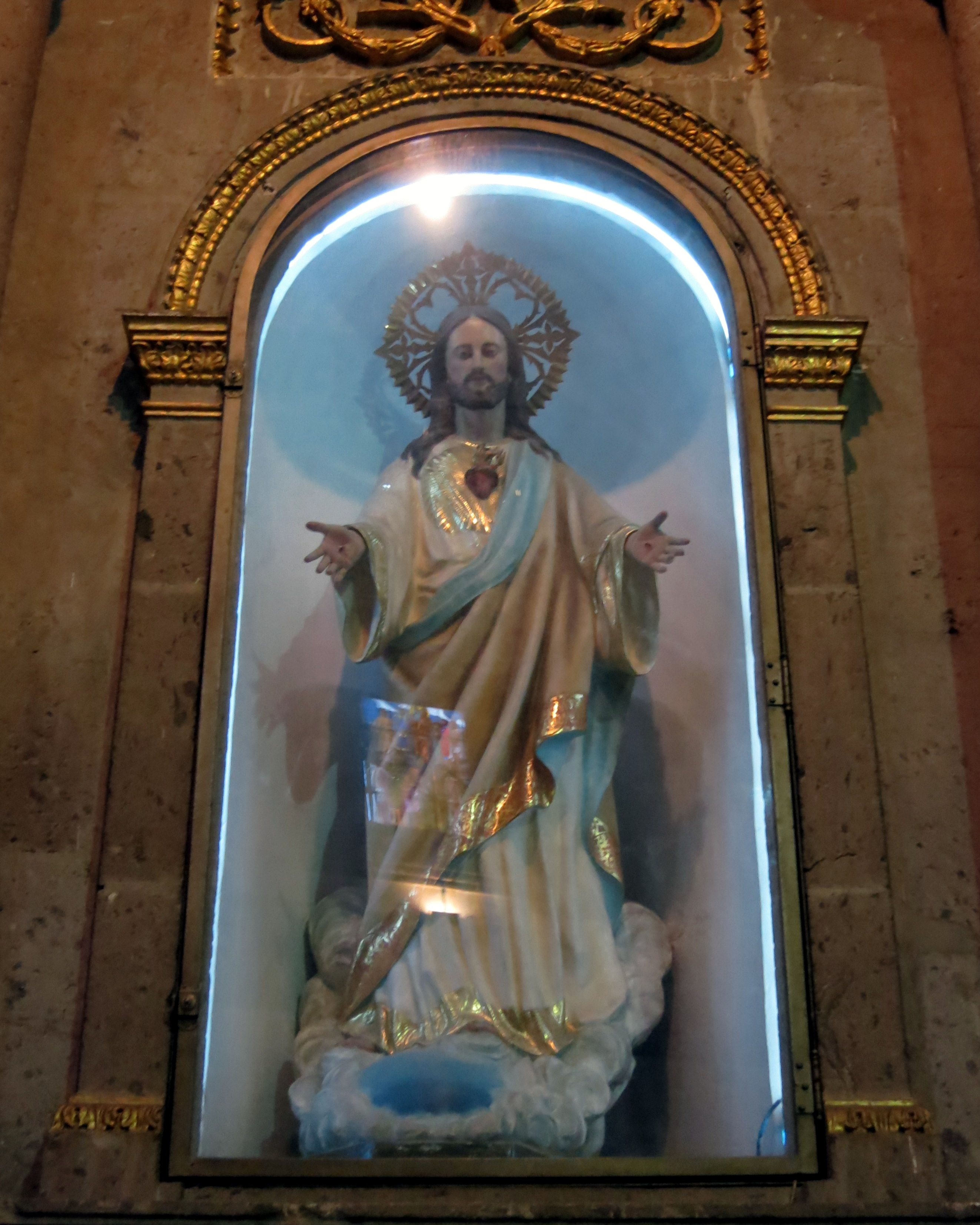 Basílica de Nuestra Señora de Zapopan (Jalisco, Mexico) - statue, Sacred Heart of Jesus